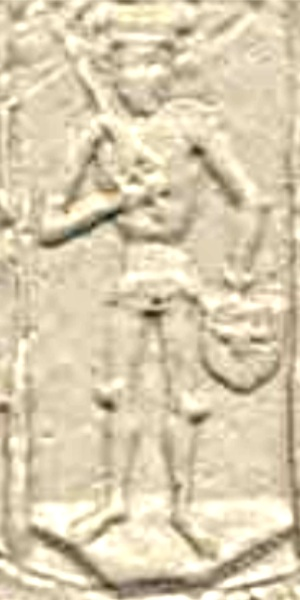 Conrad III of Olesnica, the Old